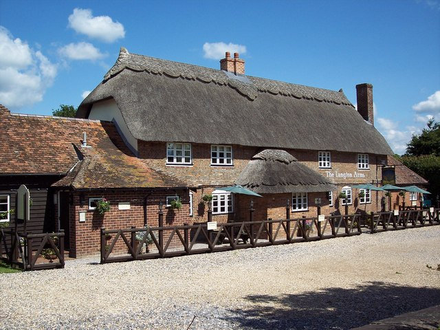 The Langton Arms, Tarrant Monkton This attractive 17th century thatched pub can be found next to the church in the sleepy village of Tarrant Monkton.